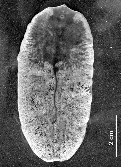 Fascioloides magna, adult, isolated from red deer